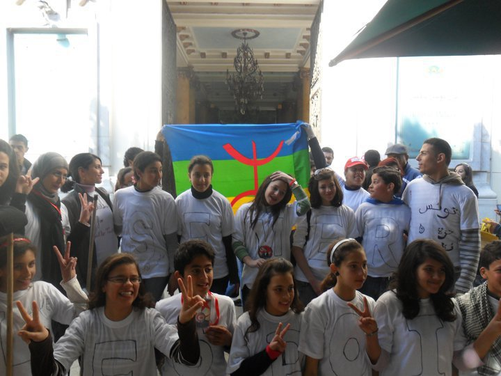 [Monia Ghanmi] Tunisia's Amazigh population is trying to ensure that their culture is understood and accepted.